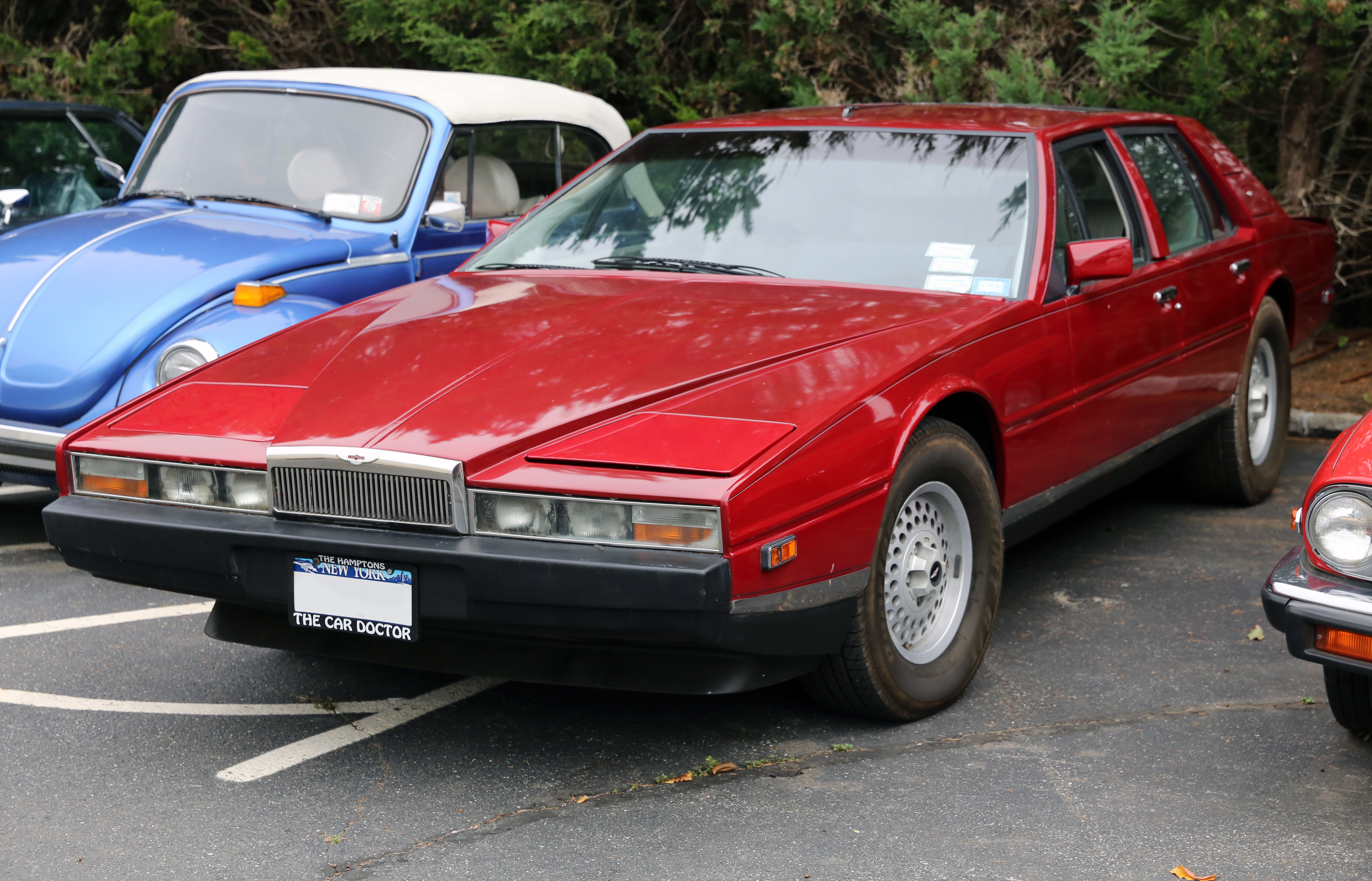 In need of some TLC. The digital instrumentation is strewn in pieces all over the inside; with only 16,000 odd miles on the odometer (according to the emissions sticker) I don't know how many more it will see. Chassis *13364, would that make this the 364th Lagonda built?